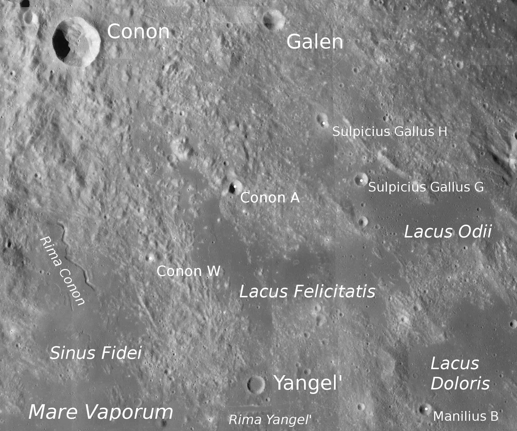 Craters Conon and Yangel', Lacus Felicitatis, Lacus Odii, Sinus Fidei and Lacus Doloris (detail of LRO - WAC global moon mosaic)